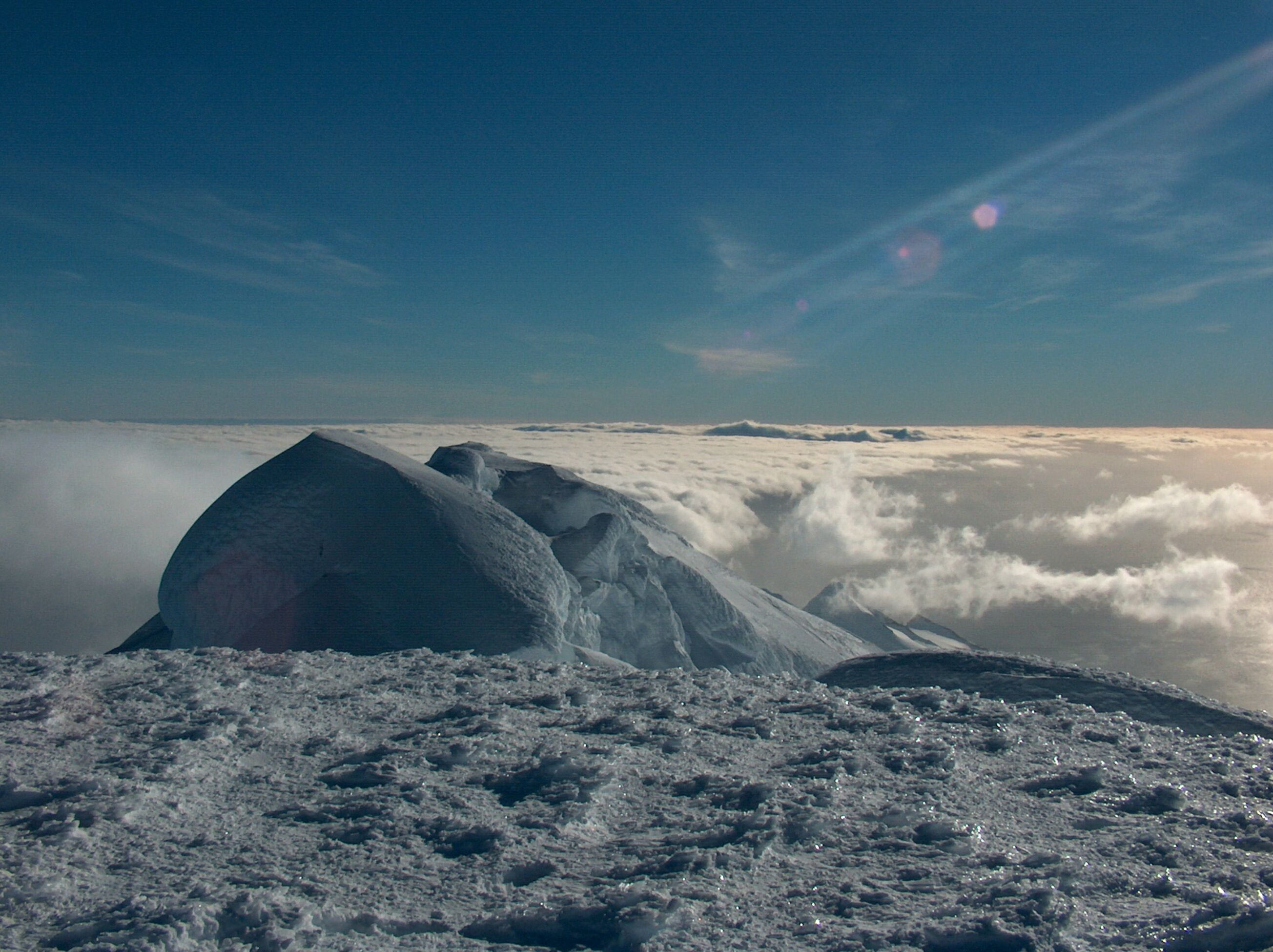 St. Boris Peak from Mount Friesland in Tangra Mountains on Livingston Island in the South Shetland Islands, with ‘The Synagogue’ (called so because of its resemblance to Sofia Synagogue dome), a sharp-peaked rock-cored ice formation abutting upon St. Boris Peak dominating the foreground. The local ice relief is subject to changes, causing variations in the features’ elevation. This picture shows ‘The Synagogue’ as seen entirely below the horizon from Mount Friesland and therefore lower than the latter in the 2004/05 season. The GPS measured elevation of Mount Friesland was 1700 m in December 2003, 1702 m in December 2004, and 1693 m in December 2016. Viewpoint location: Mount Friesland, the summit of Tangra Mountains on Livingston Island, in the South Shetland Islands Viewpoint elevation: 1702 meters (ground) + 1.7 meters (camera) Camera: HP PhotoSmart C945 (V01.54)